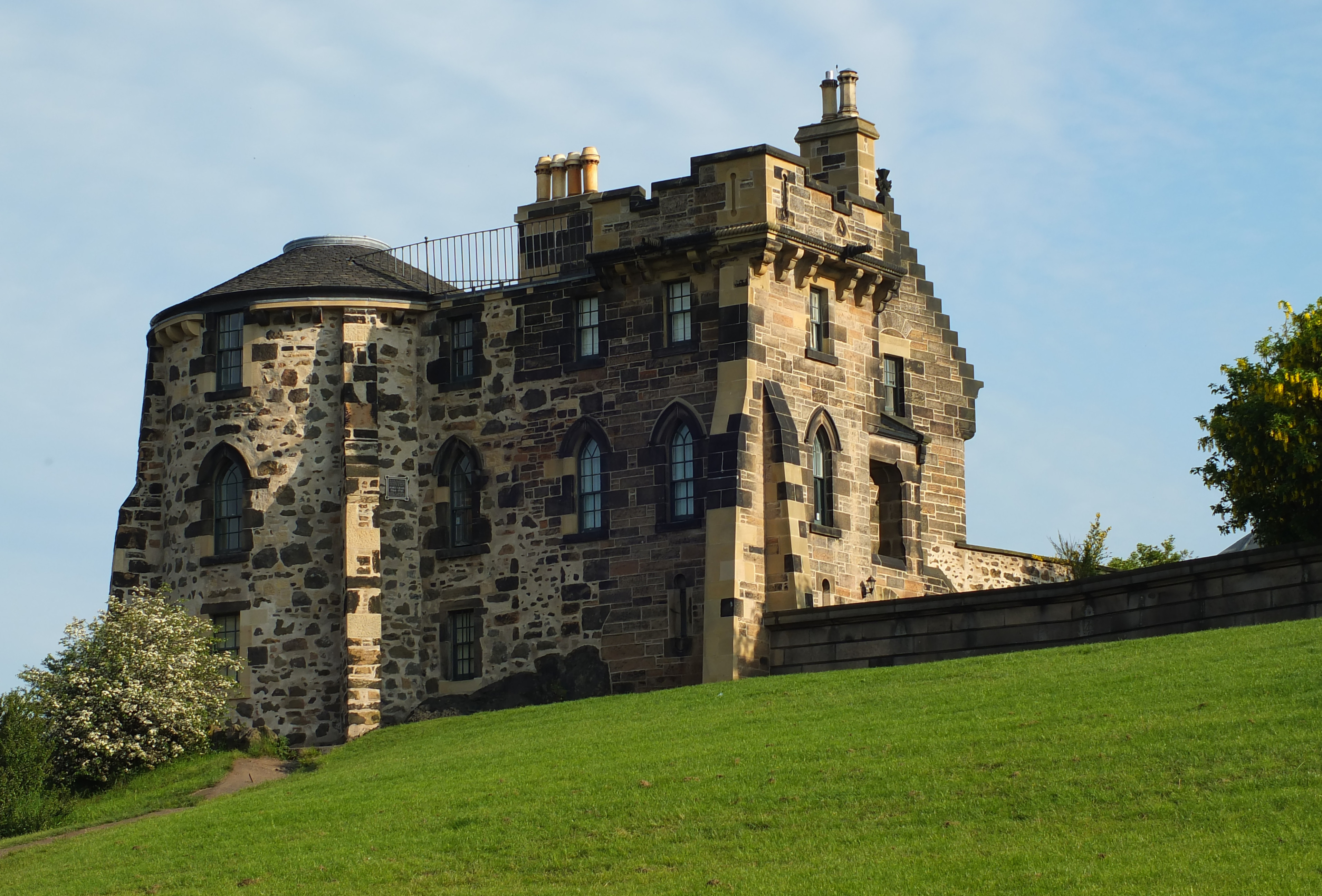 Old Observatory House was built by James Craig between 1776 and 1793. Usually called the “architect of the New Town”, James Craig built few actual buildings and most of those have now been demolished. Old Observatory House is the most outstanding example of the very few extant buildings by Craig.